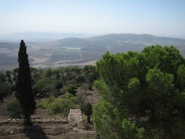 Jizreel Valley as seen from Mount Tabor, Israel. / Pogled na dolinu Jizreel s brda Tabor.